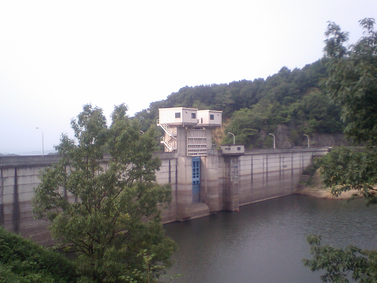 Maeyama dam,Maeyama,Sanuki-city,Kagawa Pref.